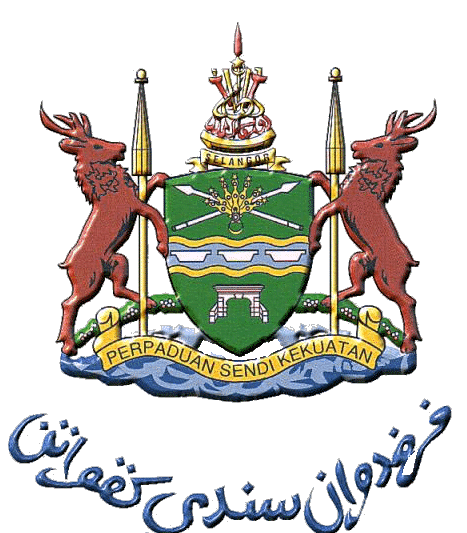 Klang logo